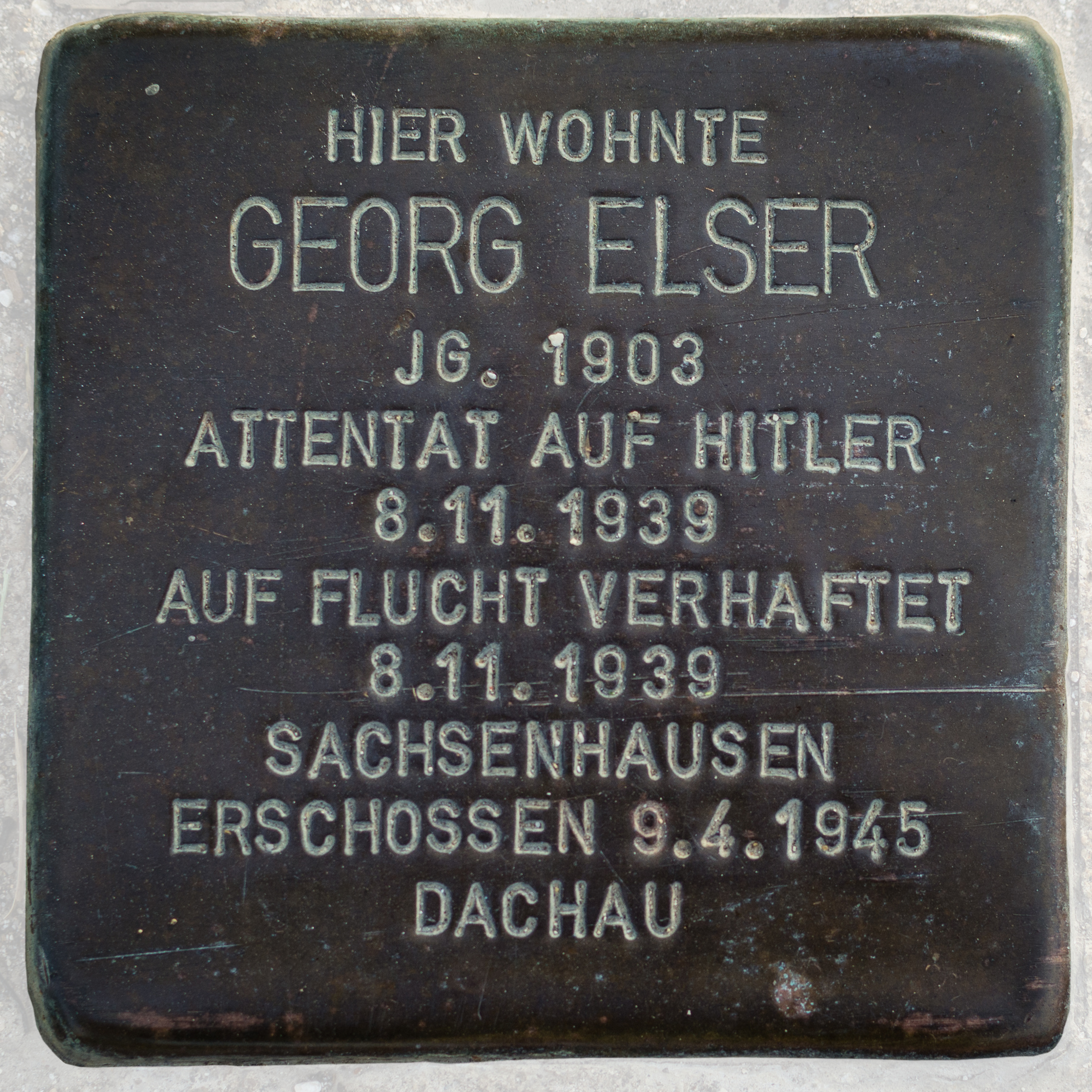 Memorial stone (Stolperstein) for Georg Elser in HermaringenTranslated Inscription: HERE LIVED GEORG ELSER, BORN 1903, FAILED ASSASSINATION OF HITLER 8.11.1939, ARRESTED ON THE RUN 8.11.1939, SACHSENHAUSEN, SHOT 9.4.1945 DACHAU